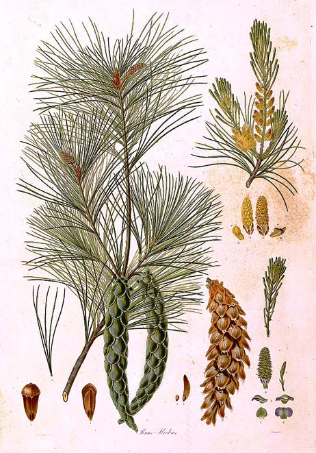 Botanical illustration of Pinus strobus. Hand-colored stipple engraving from A Description of the Genus Pinus by Aylmer Bourke Lambert (1761-1842)